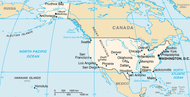 basic map of USA